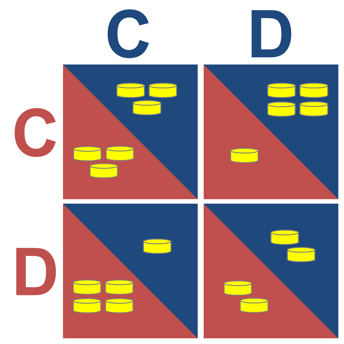 Game board depicting the prisoner's dilemma (game theory) illustrated in Richard Dawkins's documentary Nice Guys Finish First. (C = Cooperate, D = Damage)